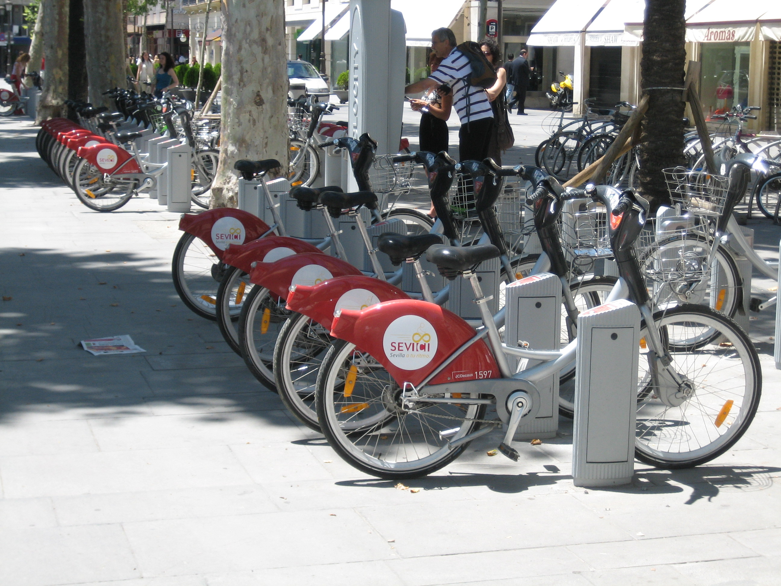 Sevici, the community bike hire scheme in the city of Seville, southern Spain.